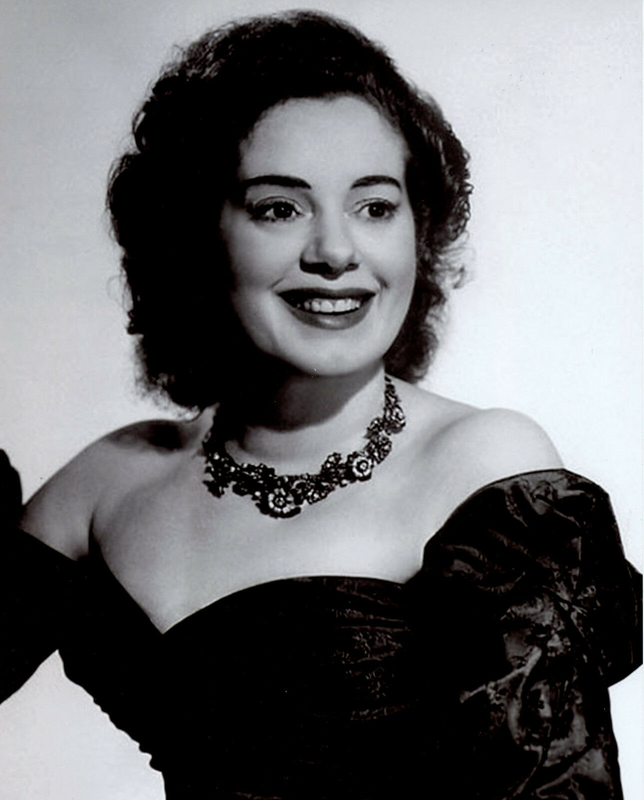 Publicity photo of Elsa Lanchester